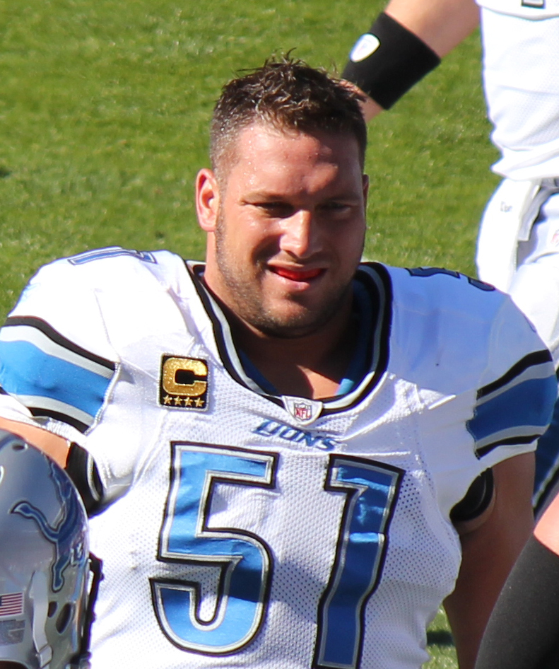 Dominic Raiola, a player on the National Football League.